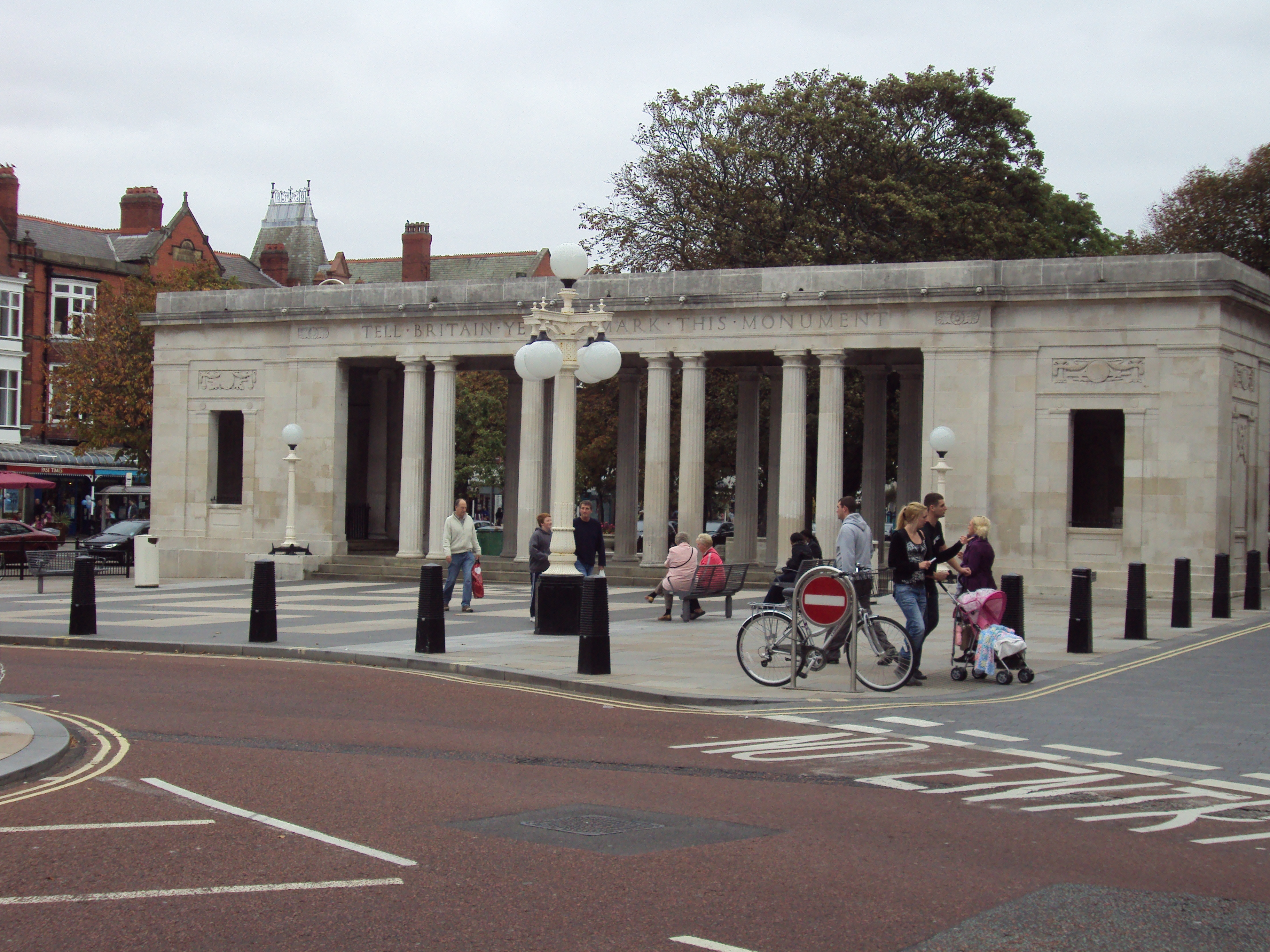 Columns at the Monument on Lord Street, Southport, Merseyside, England.